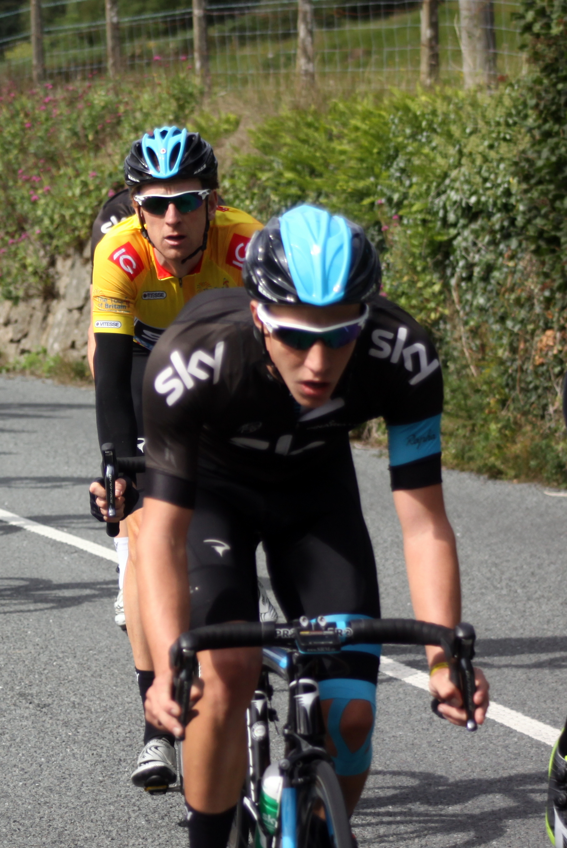 The Tour of Britain 2013 passes between Moretonhampstead and Bovey Tracey, close up of Bradley Wiggins